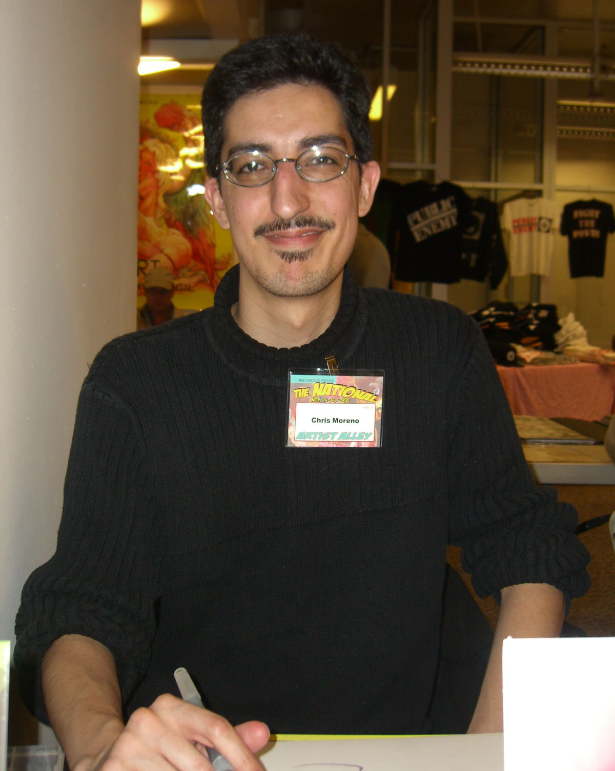 Artist Chris Moreno at the November 2008 Big Apple Convention in Manhattan.